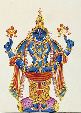 "Vishnu in his form as Pandharinatha or Vithoba worshipped at Pandharpur (Maharashtra). He stands facing to the front, blue-skinned, naked to the waist, wearing a jewelled yellow skirt, royal jewellery and a conical crown. He also wears a garland of tulsi flowers. He is four armed - two hands rest on his hips, whilst the other two hold a disc and a conch (the symbols of Vishnu)."